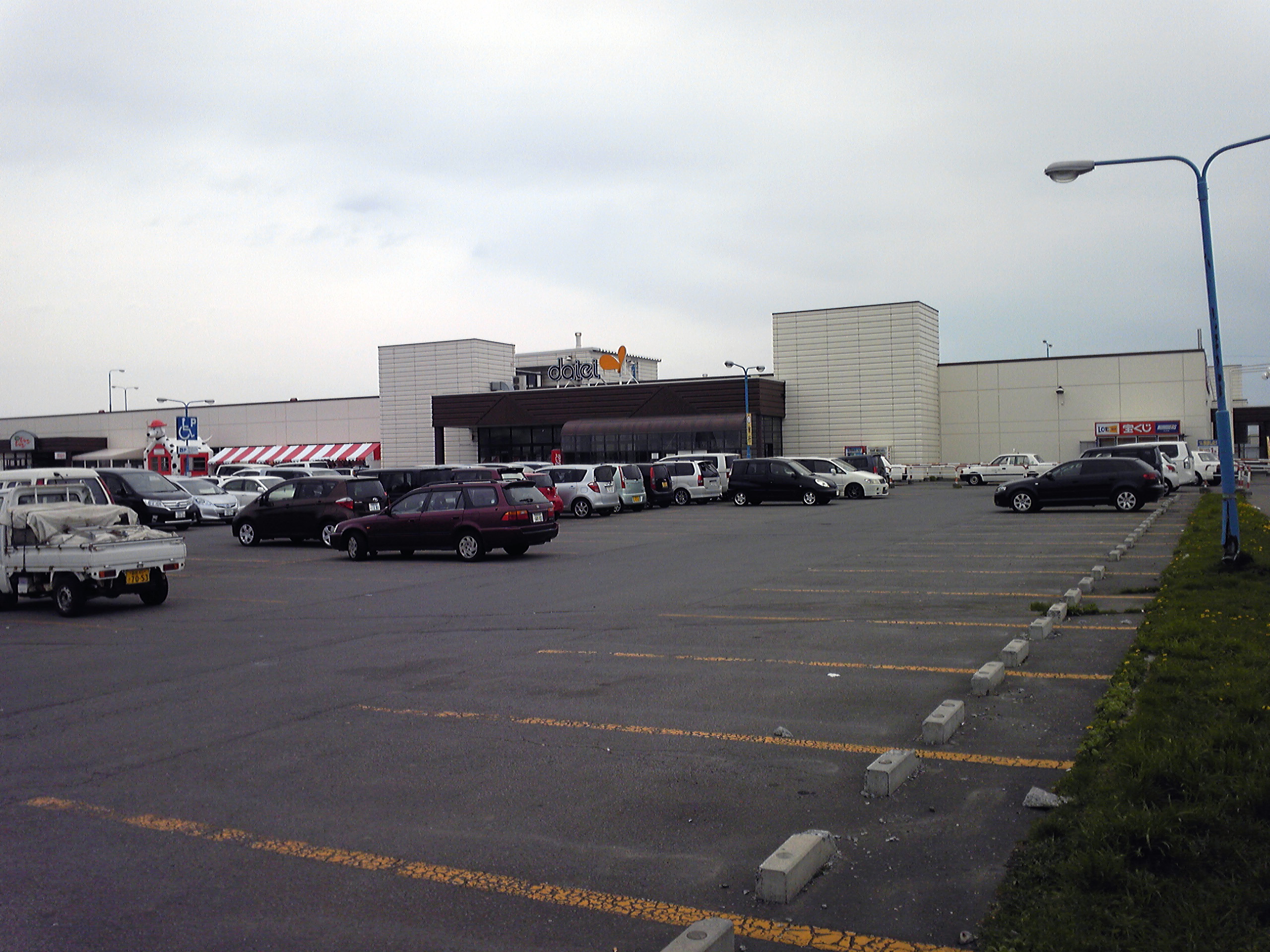 2012/05/06Daiei "Kamiiso"